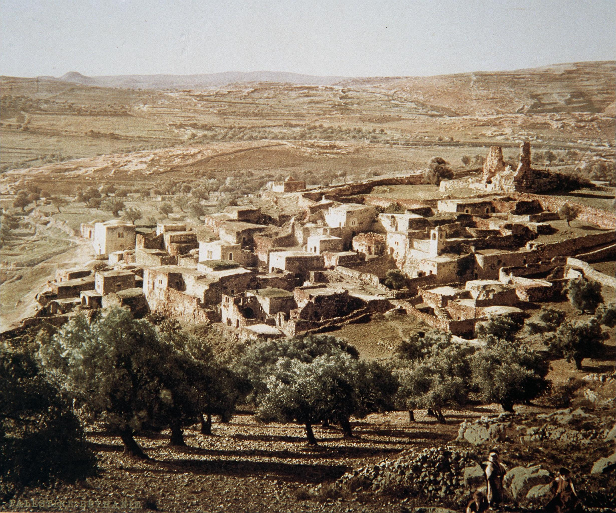 AN ARAB VILLAGE NEAR JERUSALEM AND BEYOND IT, THE JUDEAN DESERT, PHOTOGRAPHED BY IN THE LATE 19TH CENTURY BY FRENCH PHOTOGRAPHER, BONFILS. צילום צבע מסוף המאה ה19 של הצלם הצרפתי בונפיס. בצילום, נוף כללי של כפר ערבי ליד ירושלים, ברקע מדבר יהודה.